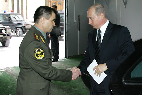 MOSCOW. Arrival at the Interior Ministry. With Interior Minister Rashid Nurgaliev.